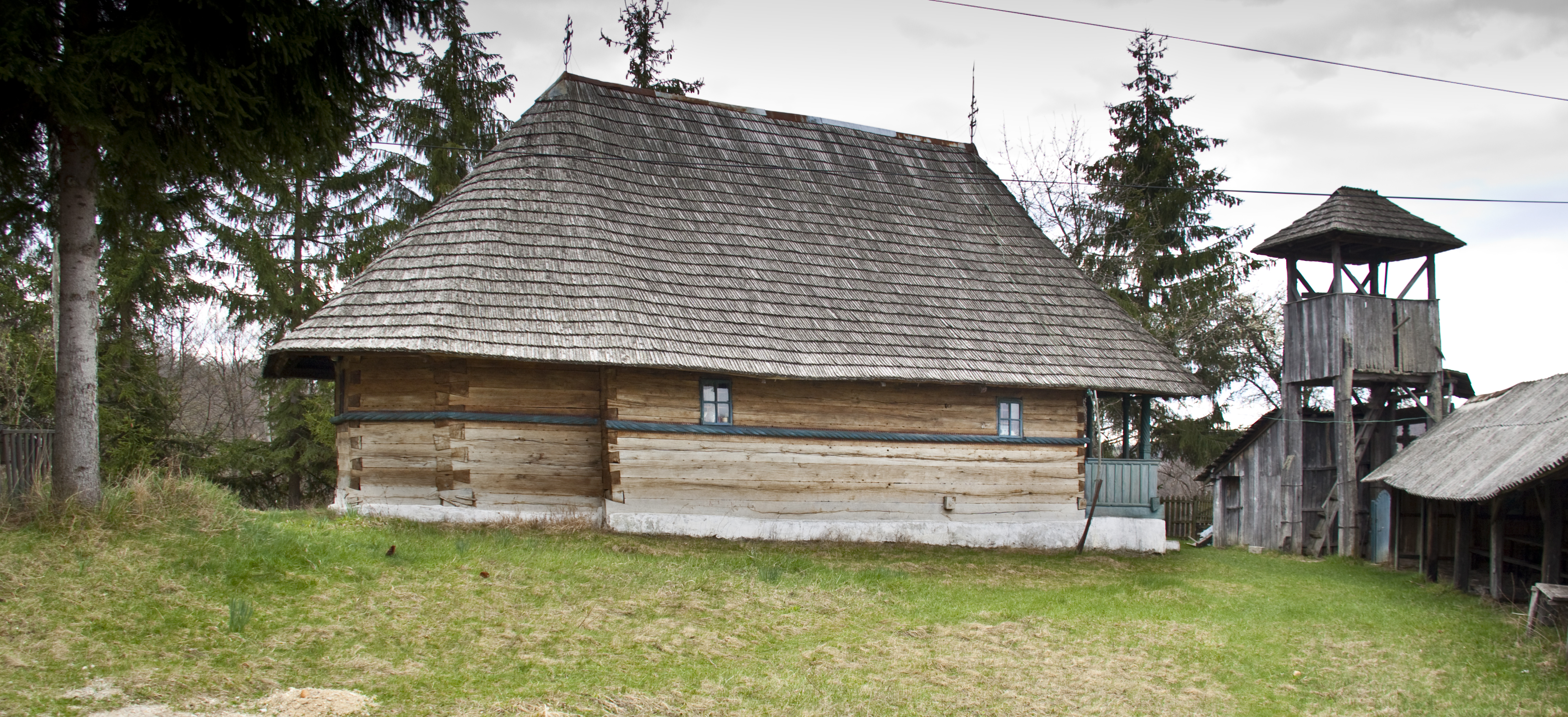 Cârceşti, Argeş county, Romania: the wooden church.